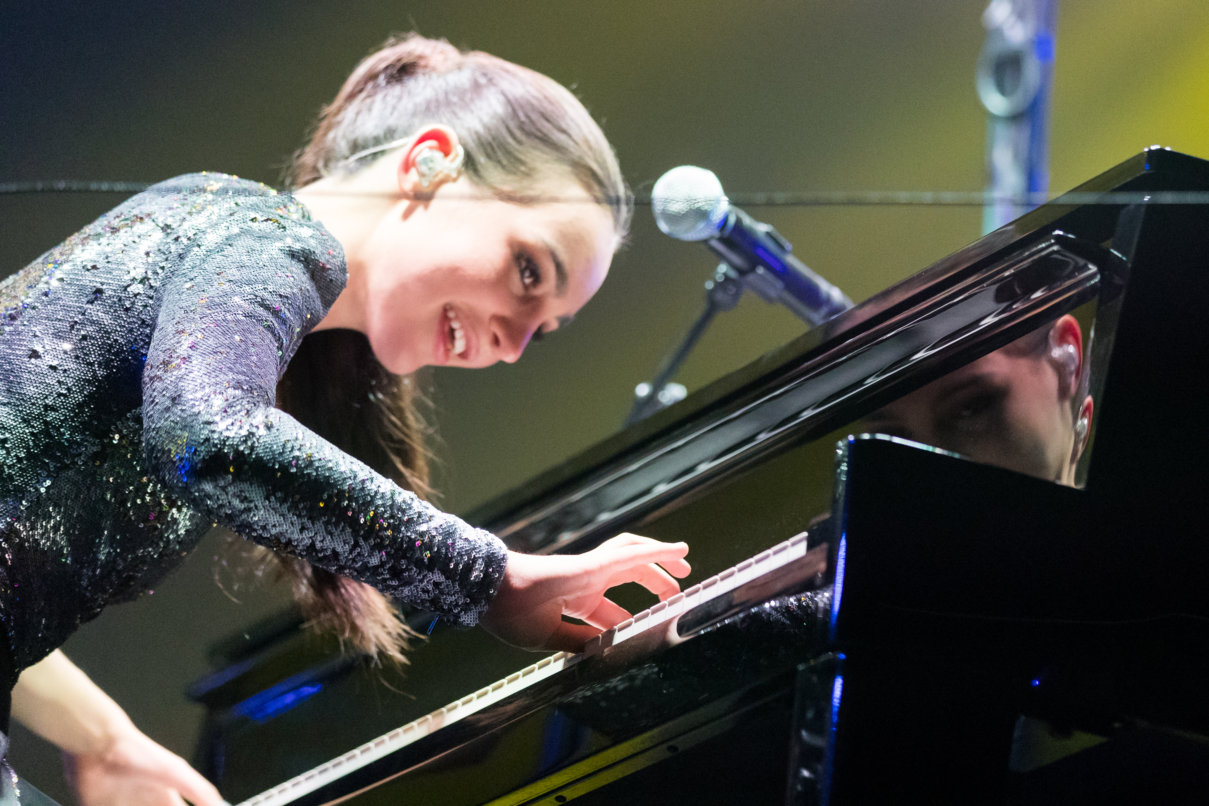 Emily Bear during Night of the Proms at SAP Arena, Mannheim, Baden-Württemberg, Germany on 2017-12-22, Photo: Sven Mandel